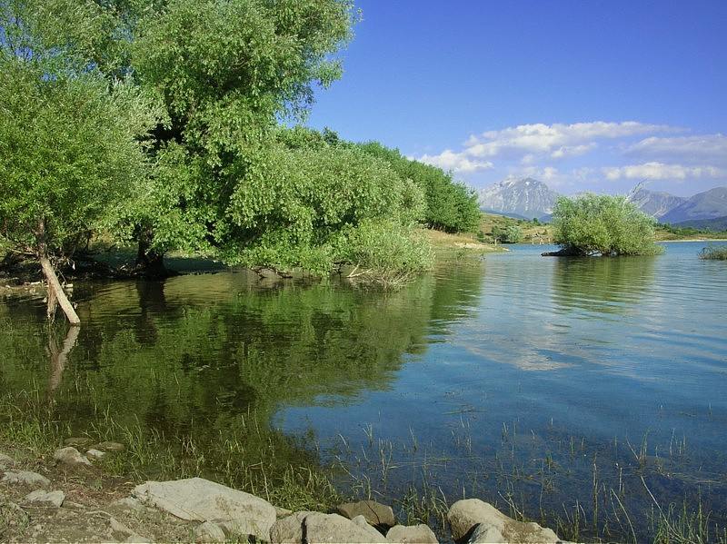 Lago di Campotosto, Italy. Picture taken by user Idéfix , july 2005